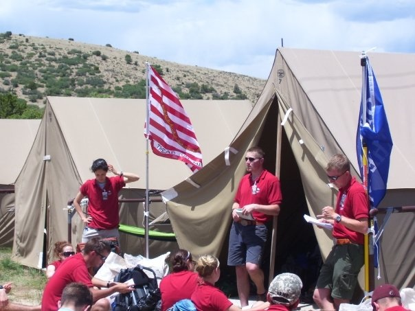 Service Academy Rangers listening to their Ranger Trainers at Philmont Scout Ranch, summer 2009